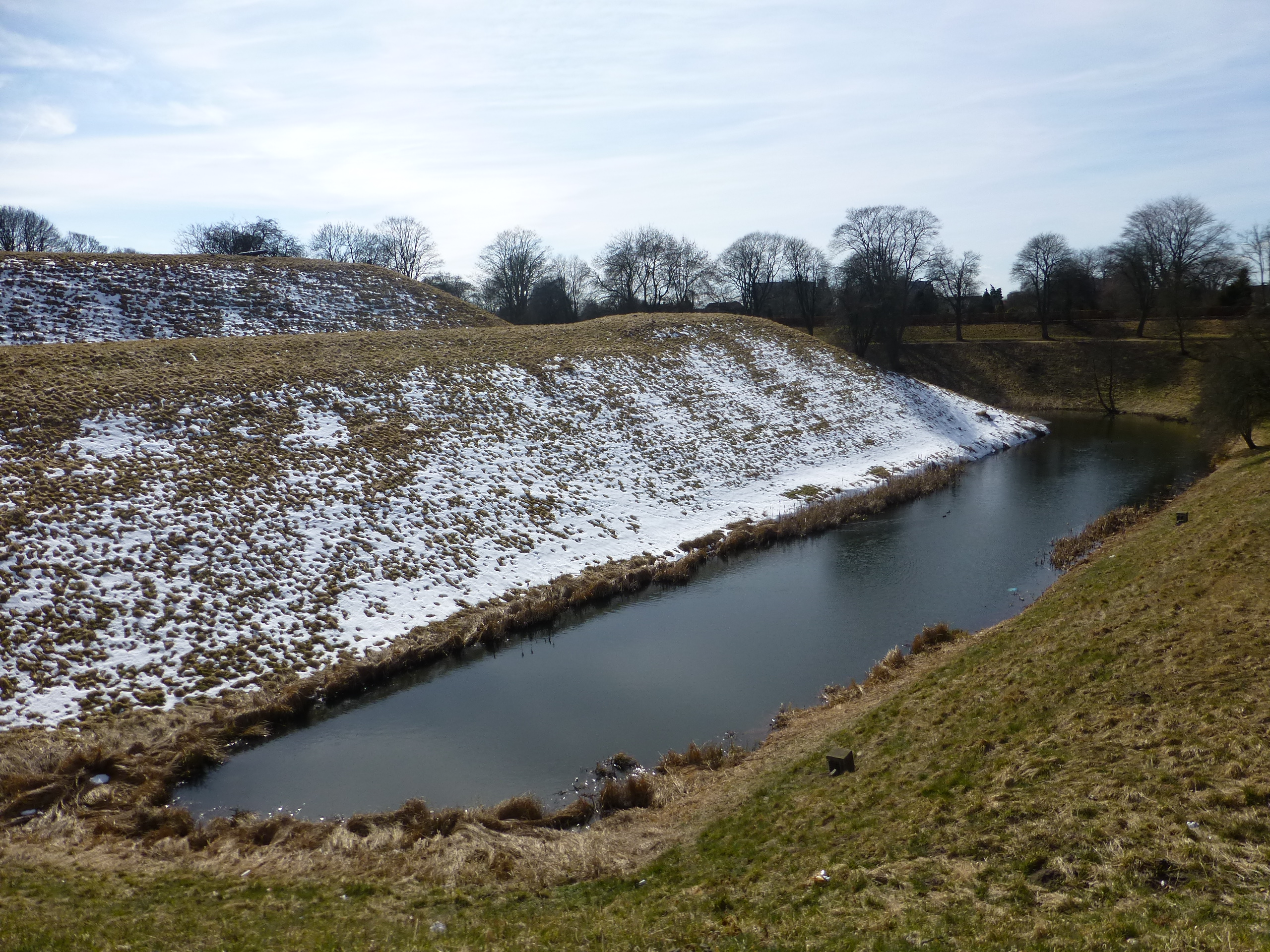 Fredericia Vold is the well-preserved fortification of Fredericia in Denmark.